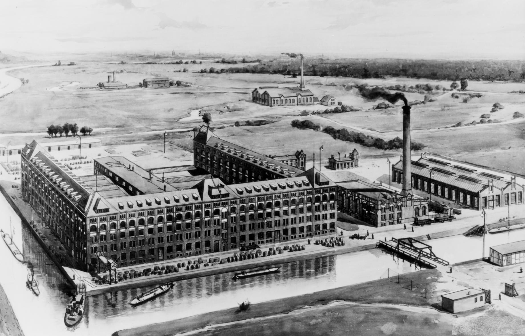 First factory of Siemens at Westend (Berlin), today called Siemensstadt